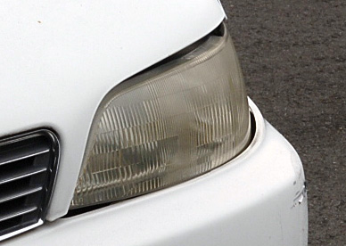 a yellowed headright of an old Toyota car.